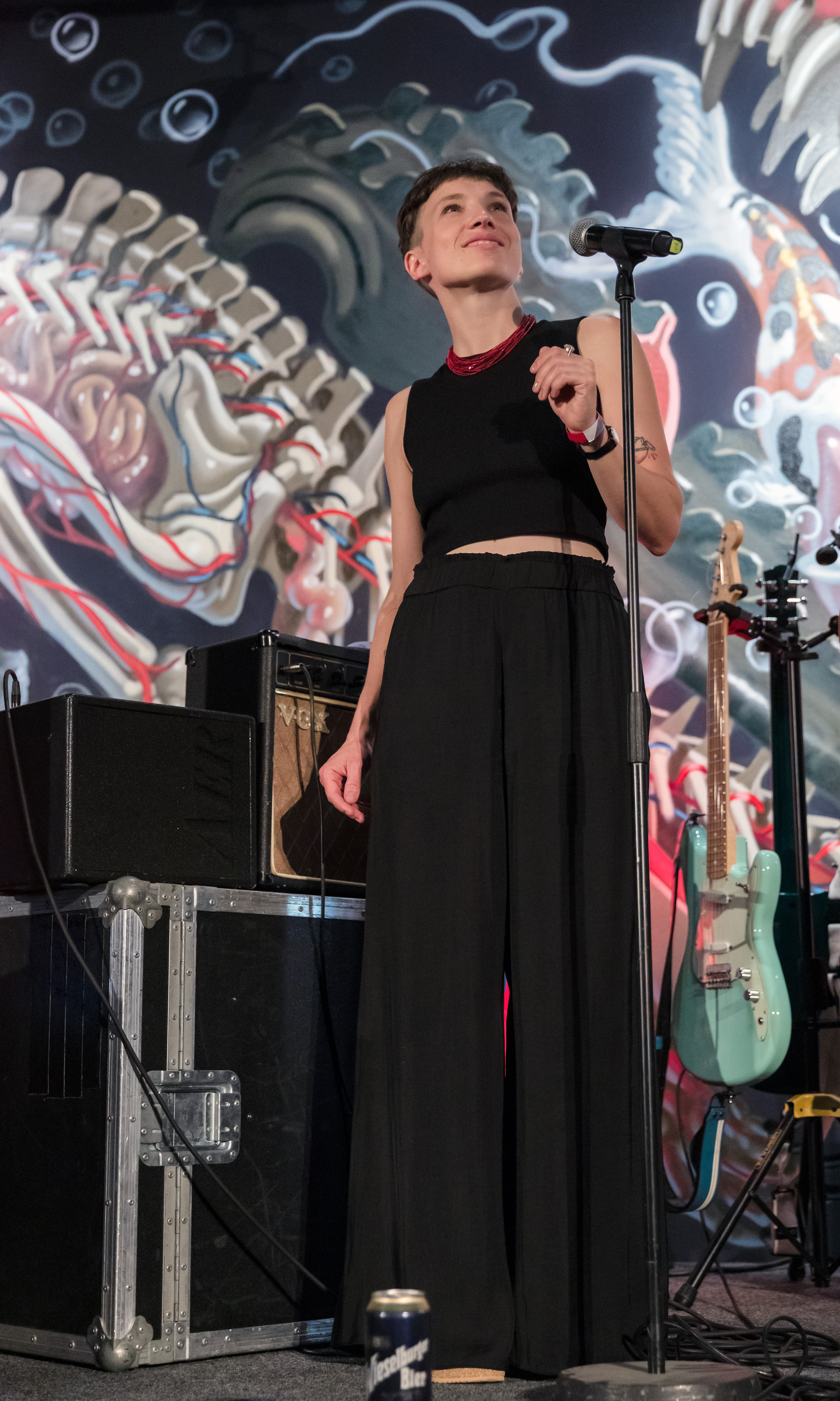 Sigrid Horn joining Clara Luzia during a concert at Vienna Museum on Karlsplatz during Popfest 2019 in Vienna, Austria.